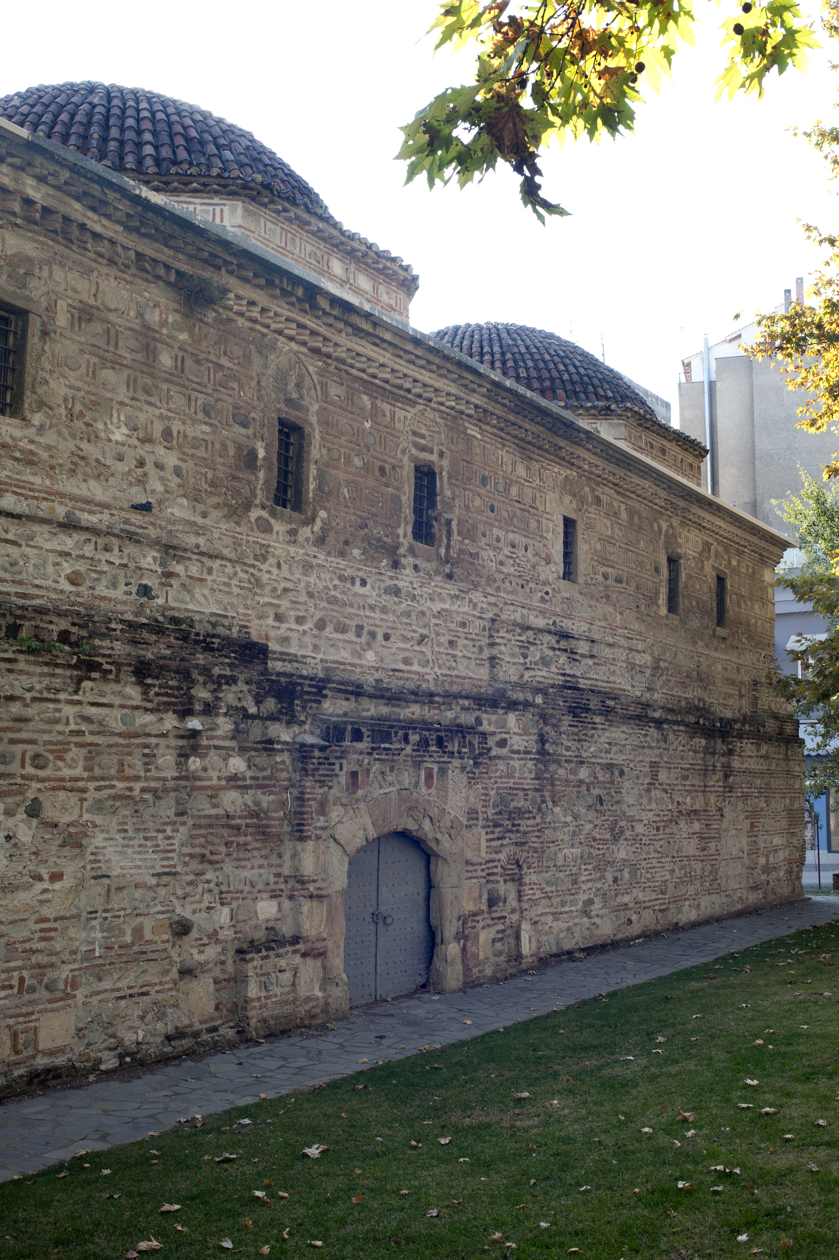 Bezesteni (today Archeological Museum of Serres), Serres, Greece.